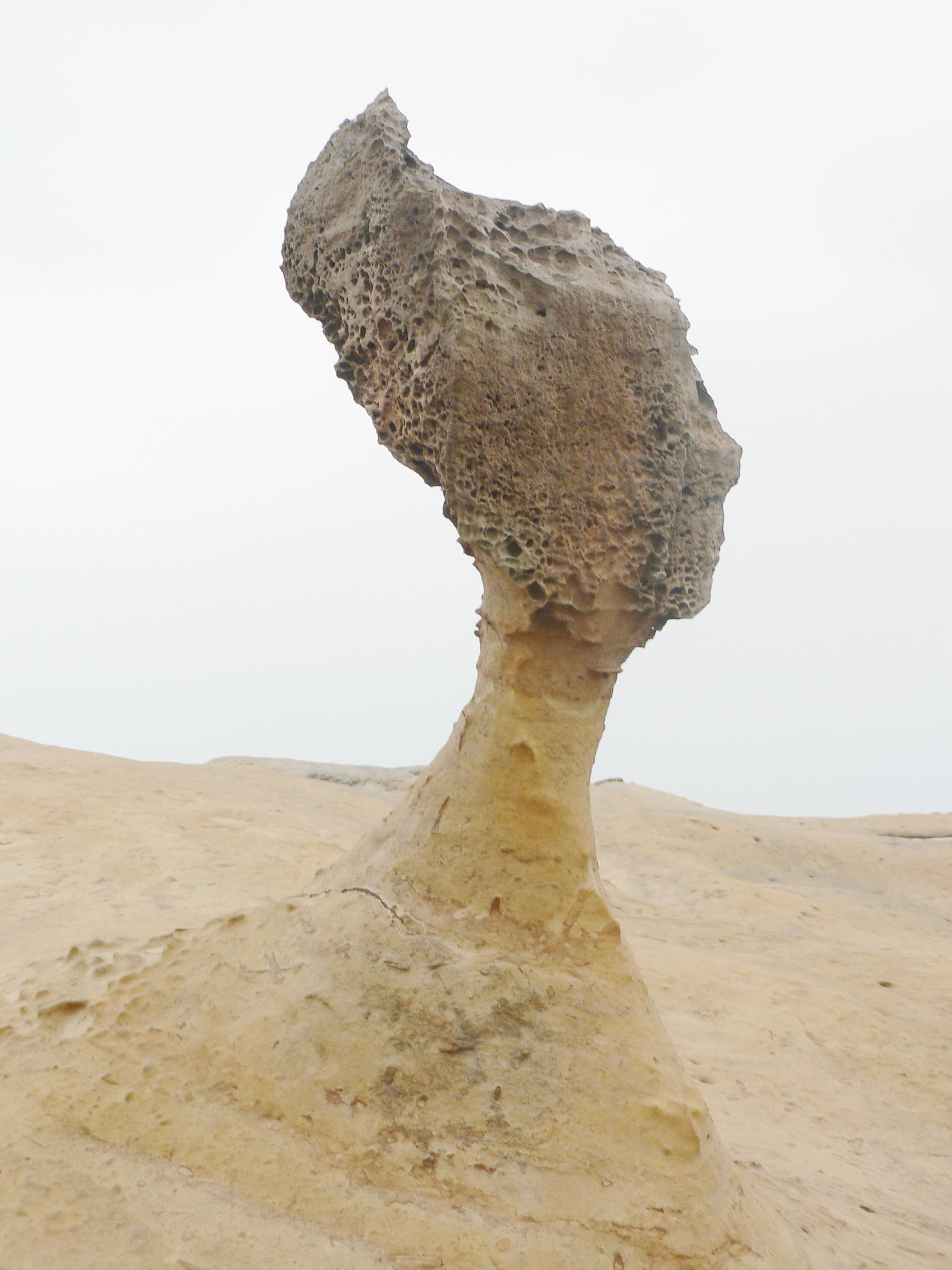 Yehliu, Taiwan: the Queen's Head, a strange shape formed by erosion